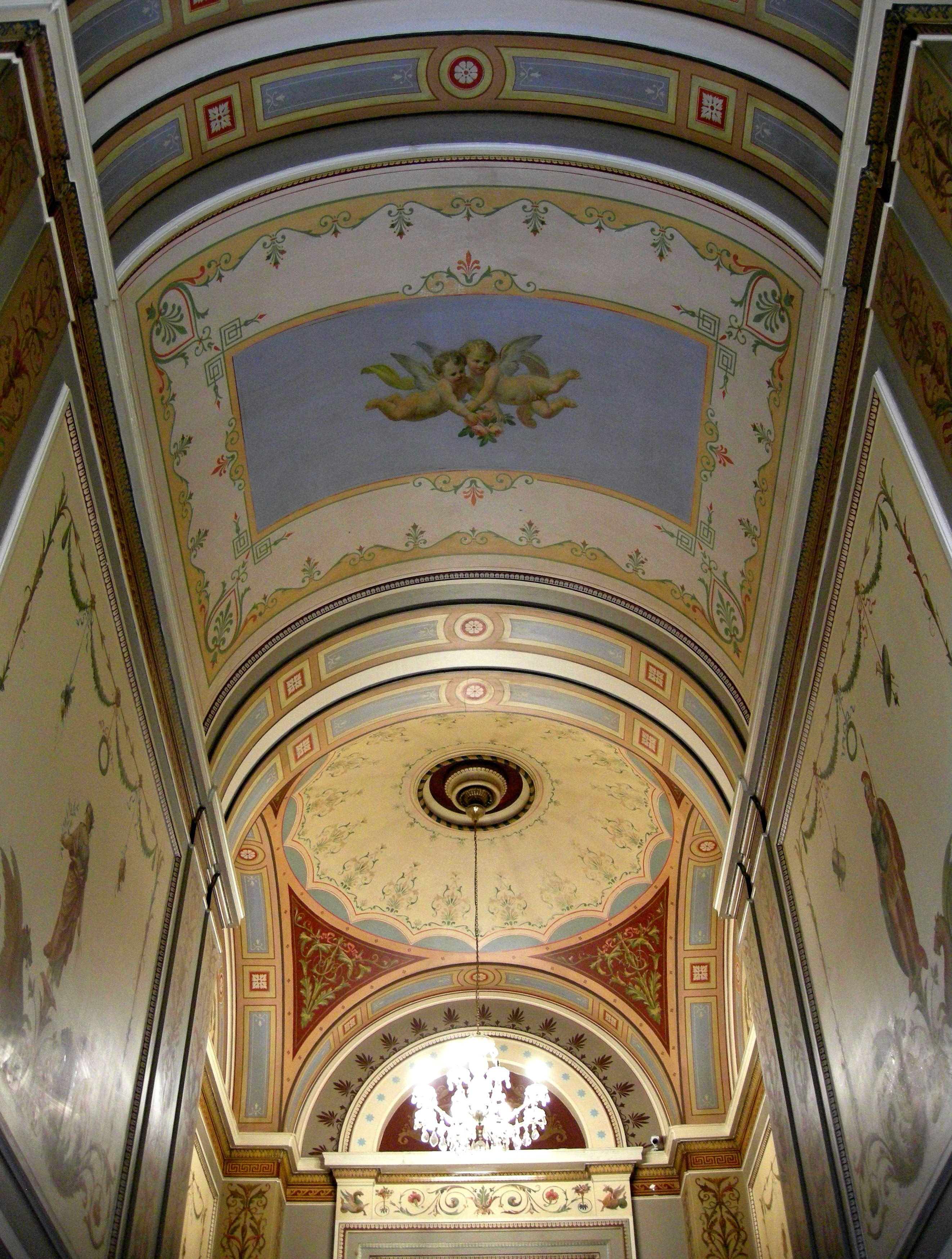 Bankfield Museum, Halifax, West Yorkshire, England. 53.43'.57".N; 1.51'.48".W.